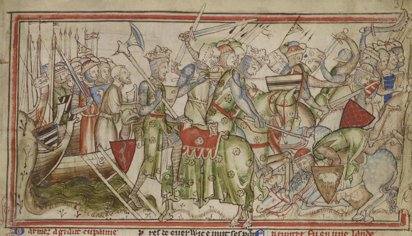 The arrival of King Harald of Norway and his defeat of the Northumbrians at Fulford, from The Life of King Edward the Confessor by Matthew Paris. 13th century.